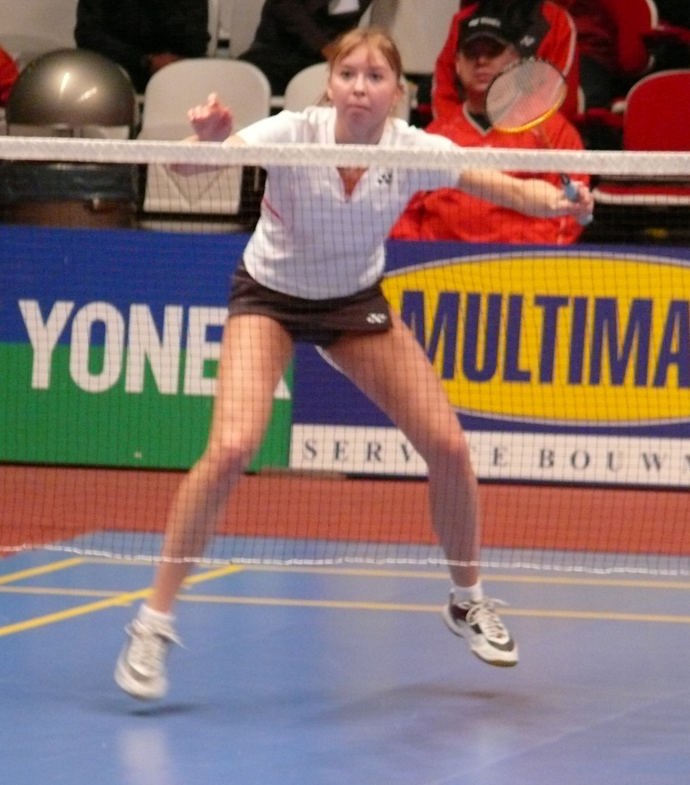 Nina Vislova (Russia)